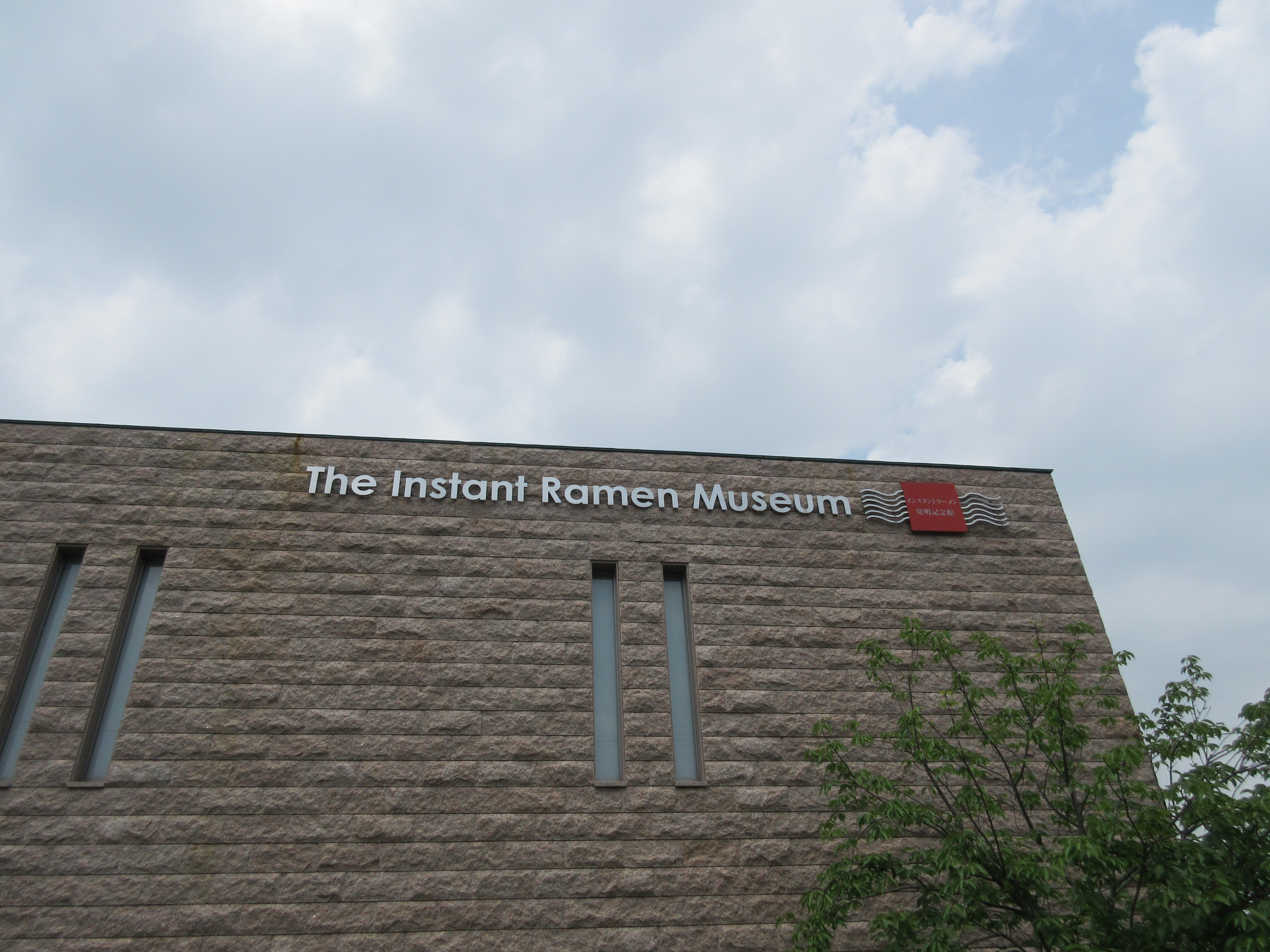 A picture taken outside of the Momofuku Ando Instant Ramen Museum, showing its logo.